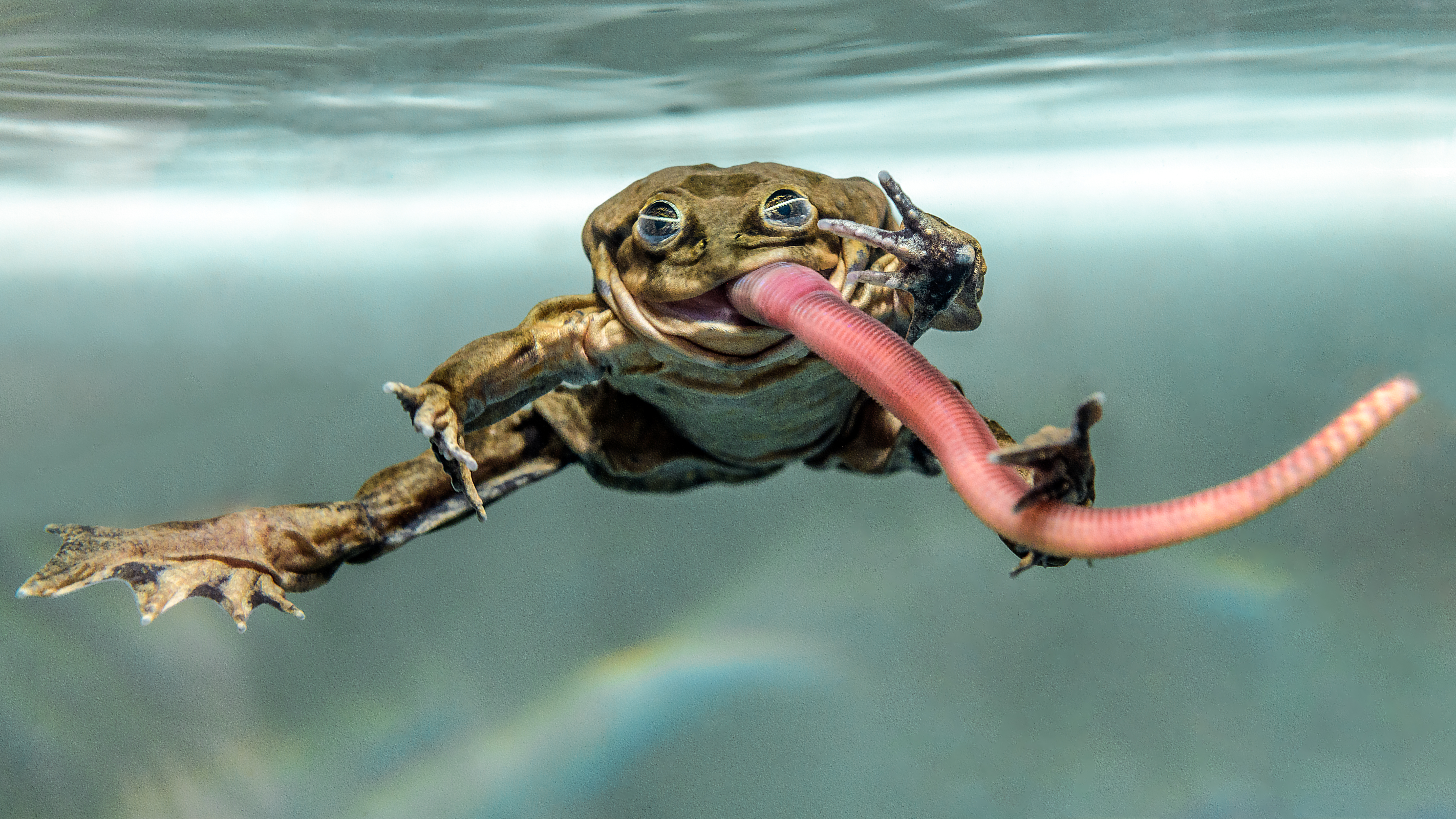 Titicaca water frog with earthworm, Prague Zoo